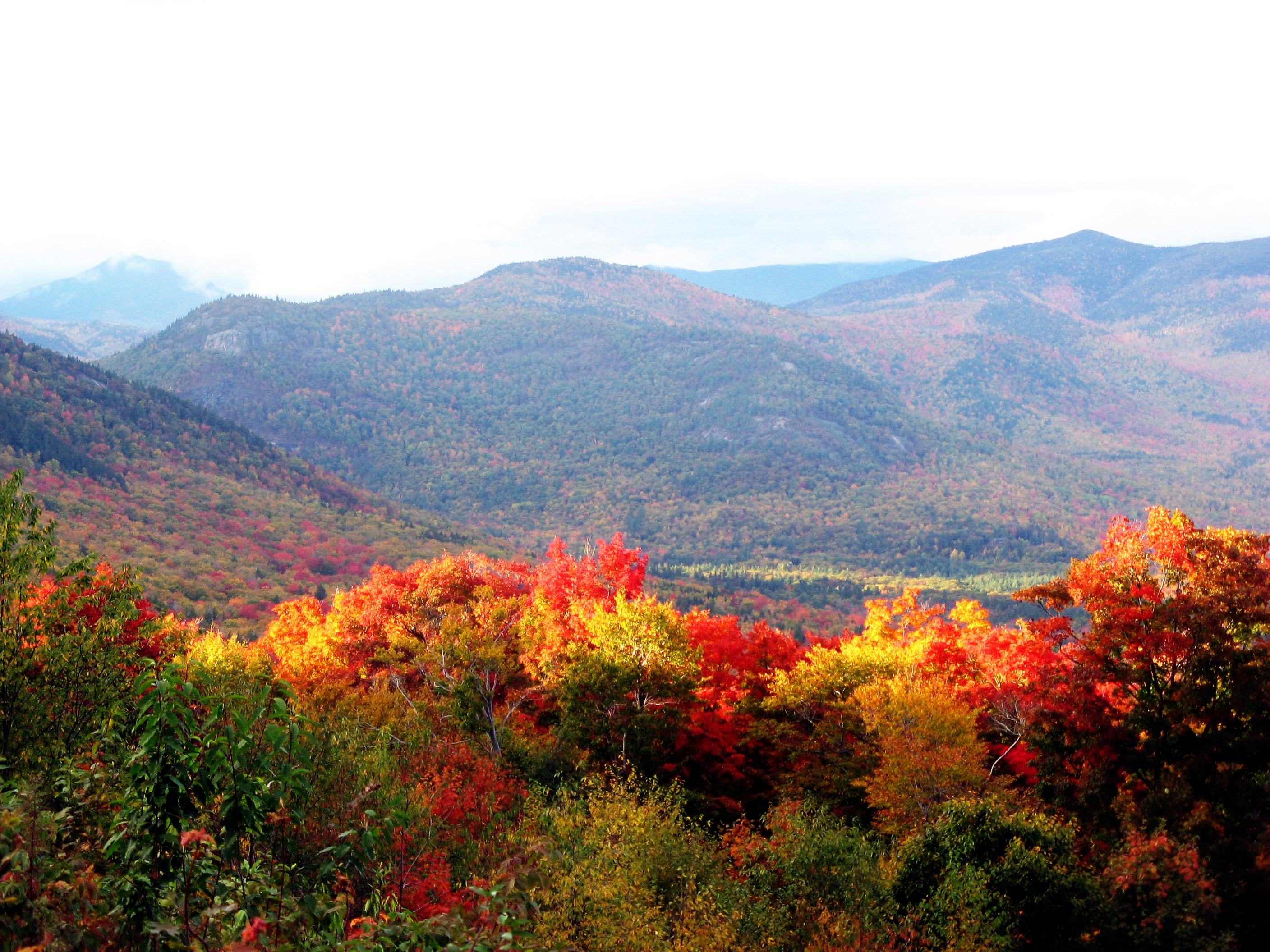 the forests in new hampshire in autumn